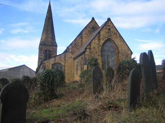 Former parish church of St Thomas, Holywell Road, Brightside, Sheffield, South Yorkshire. Completed in 1854, made redundant in 1979 and deconsecrated.